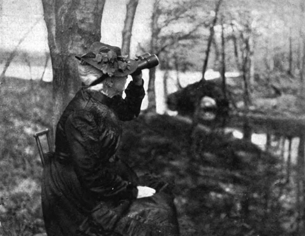 "Mrs. Olive Thorne Miller taking notes"